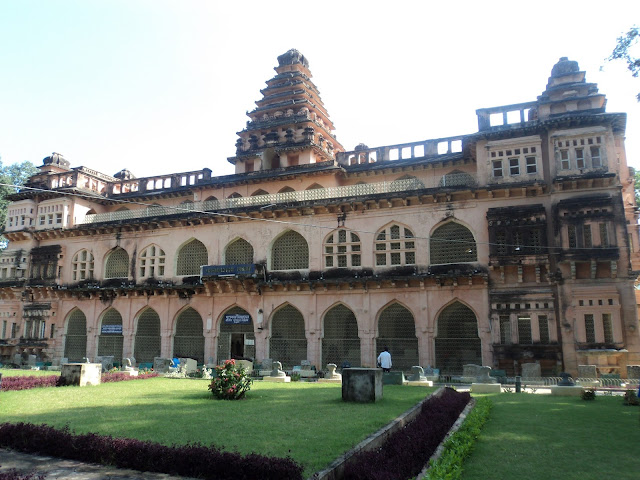 Chandragiri fort is a suburb of Tirupati in Andhra Pradesh, India.The greatest of Hindu Emperors, Krishnadeva Raya of Vijayanagara Empire was brought up at Chandragiri Fort, before his coronation at Penukonda in Anantapur District. Chandragiri is famous for the historical fort, built in the 11th century, and the Raja Mahal (Palace) within it. Chandragiri was under the rule of Yadava Naidus for about three centuries and came into control of Vijayanagar rulers in 1367. It came into prominence during Saluva Narasimha Rayalu,he got the title of Mahamandaleswara and his illustrious Prime minister Chitti Gangarayalu(Ganganamatyudu) was known for his vision, wisdom and rectitude and was revered as a Bhisma Pitamaha in his times, he was the person who identified intellectualism of Timmarasu and taken him into the service of Chandragiri and later promoted to the Prime minister of Vijayanagar Empire.Gangaraya discendents served the Vijayanagara empire as trusted Generals and Governors for several generations,Chandragiri was the 4th capital of Vijayanagar Empire, Rayas shifted their capital to here when Golconda sultans attacked Penukonda. In 1646 the fort was annexed to the Golkonda territory and subsequently came under Mysore rule. It went into oblivion from 1792 onward.[1] The fort encircles eight ruined temples of saivite and vaishnavite pantheons, Raja Mahal, Rani Mahal and other ruined structures. The Raja Mahal Palace is now an archeological museum. The palace is three storeyed, is an example of Indo-Sarcen architecture of Vijayanagar period. The crowning towers represents the Hindu architectural elements. The palace was constructed using stone, brick, lime mortar and devoid of timber.[1] Koneti Naidu, who was made the king of Penukonda by the Vijayanagar Raya was the great-grandson of Vasarasi Kanaka Naidu of Chandragiri Royal Family they belonged to the Balija caste of Andhra Pradesh.[2]